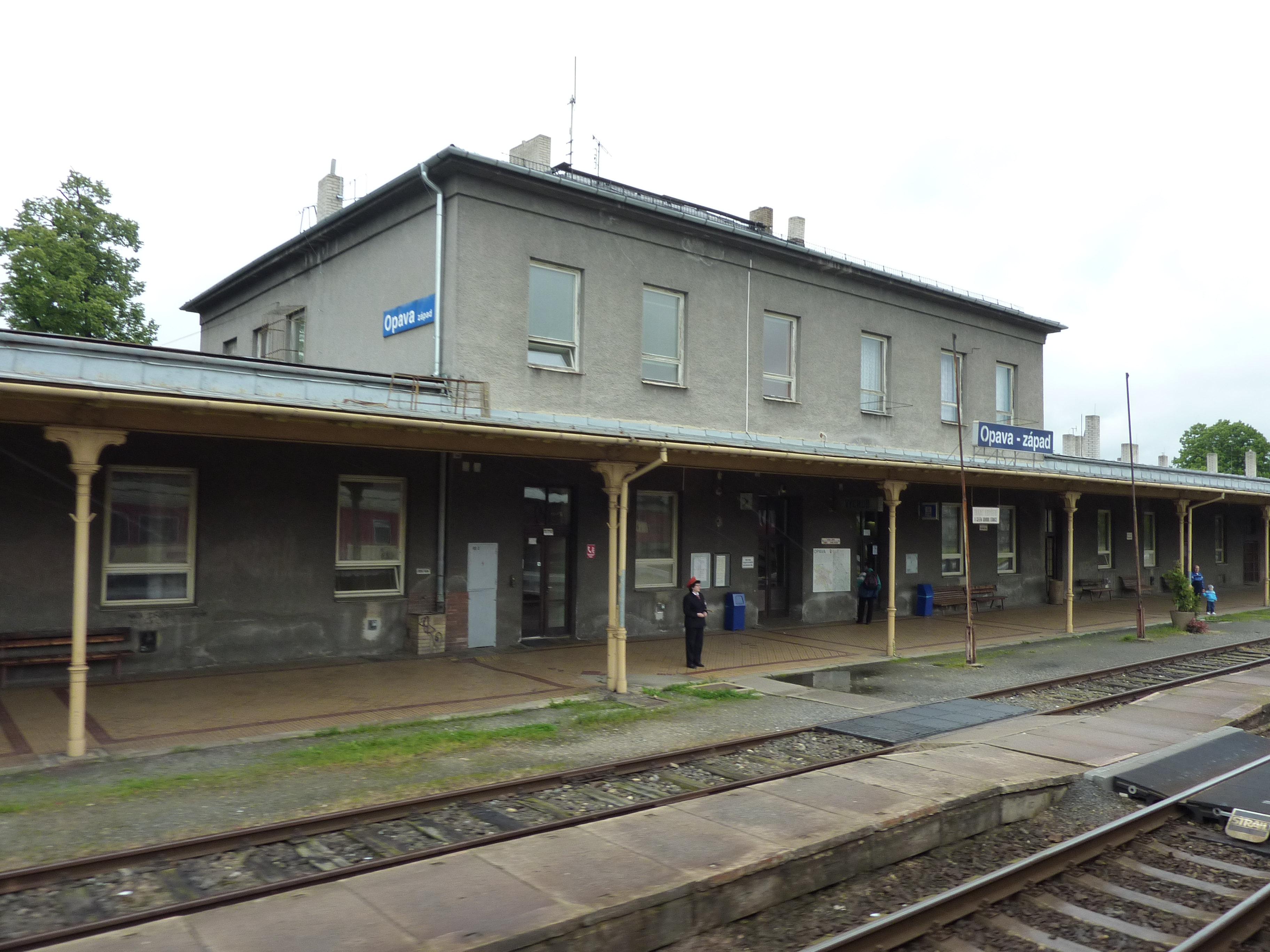 Railway station Opava-západ in Czech Republic